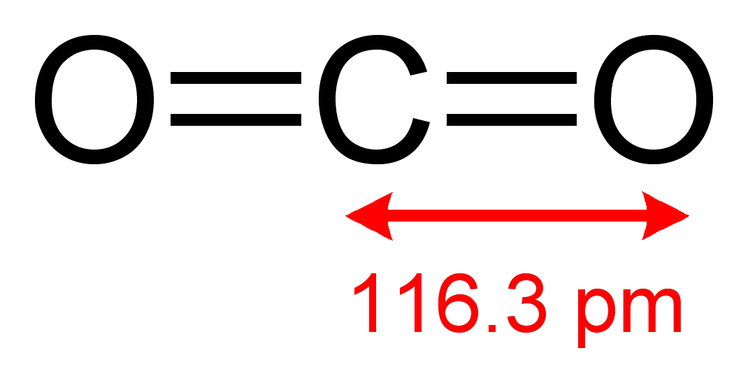 Structural formula of the carbon dioxide molecule, CO2. Bond length of 116.3 pm (i.e. 1.163 Å) from N. N. Greenwood and A. Earnshaw (1997) Chemistry of the Elements (second ed.), Butterworth-Heinemann, p. 306 ISBN: 0-08-037941-9. Image generated in ChemDraw.